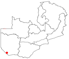 Map: Sesheke, town and district in the western province of Zambia